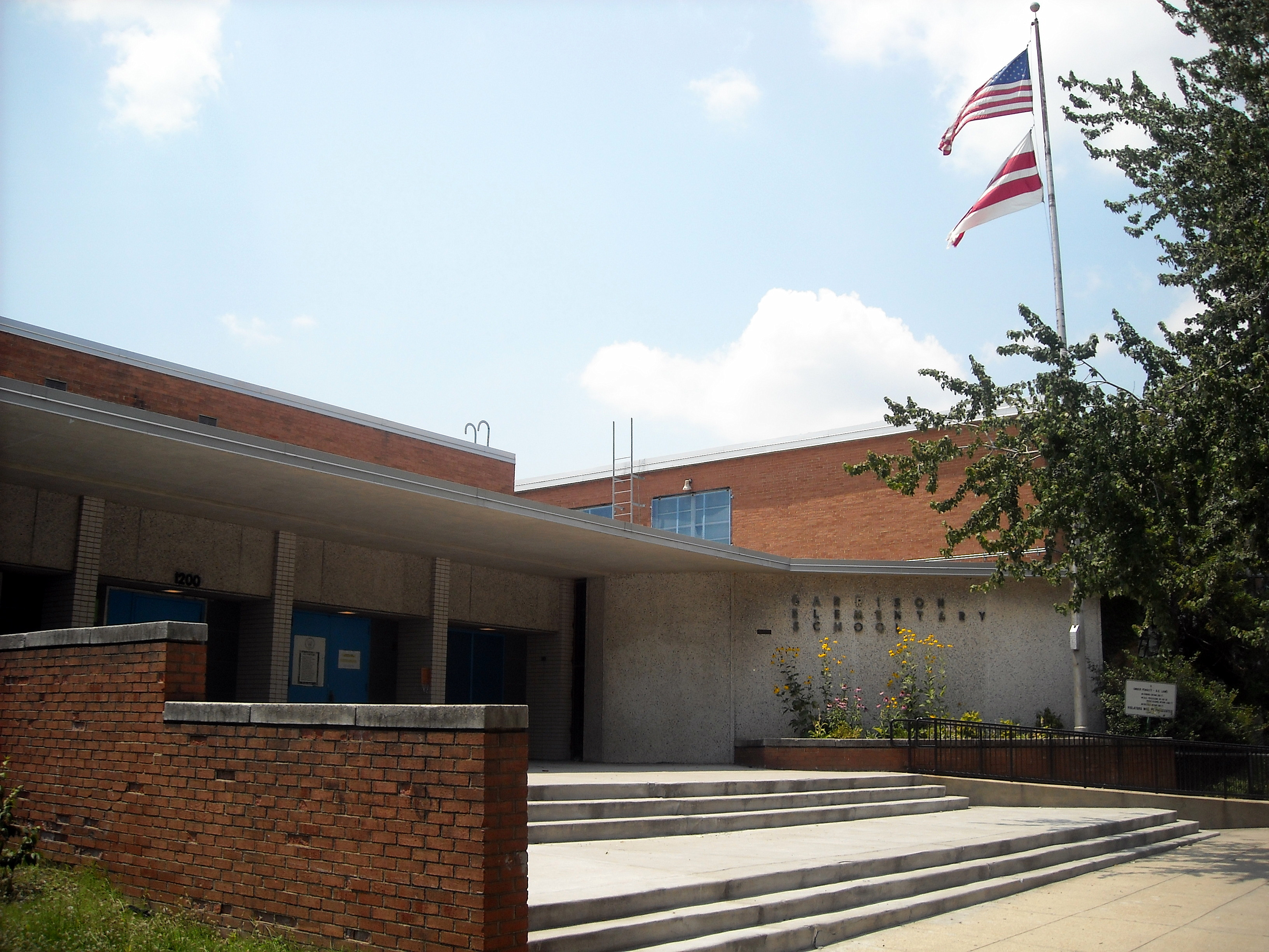 Garrison Elementary School at 1200 S Street, NW in Washington, D.C.